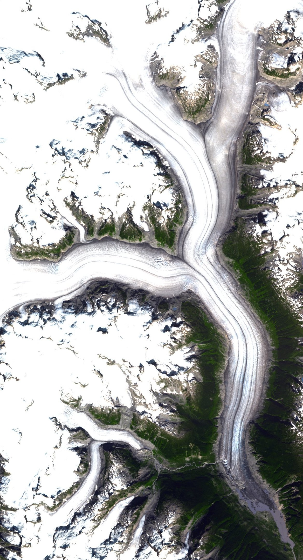 Satellite photo of glaciers in the Silverthrone area including the Silverthrone Glacier.